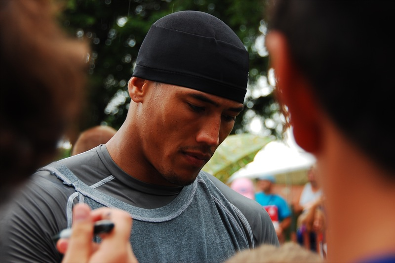 New York Giants safety Will Demps signs autographs before training camp.